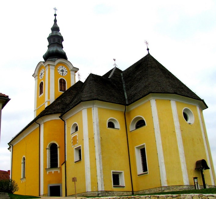 Parish Church of St. Martin, Ponikva